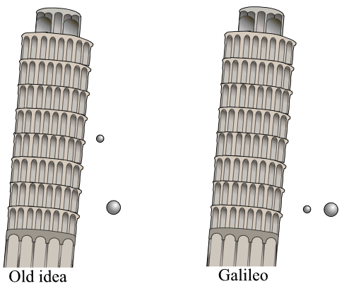 Pisa experiment by Galileo Galilei. Drawn by Theresa Knott